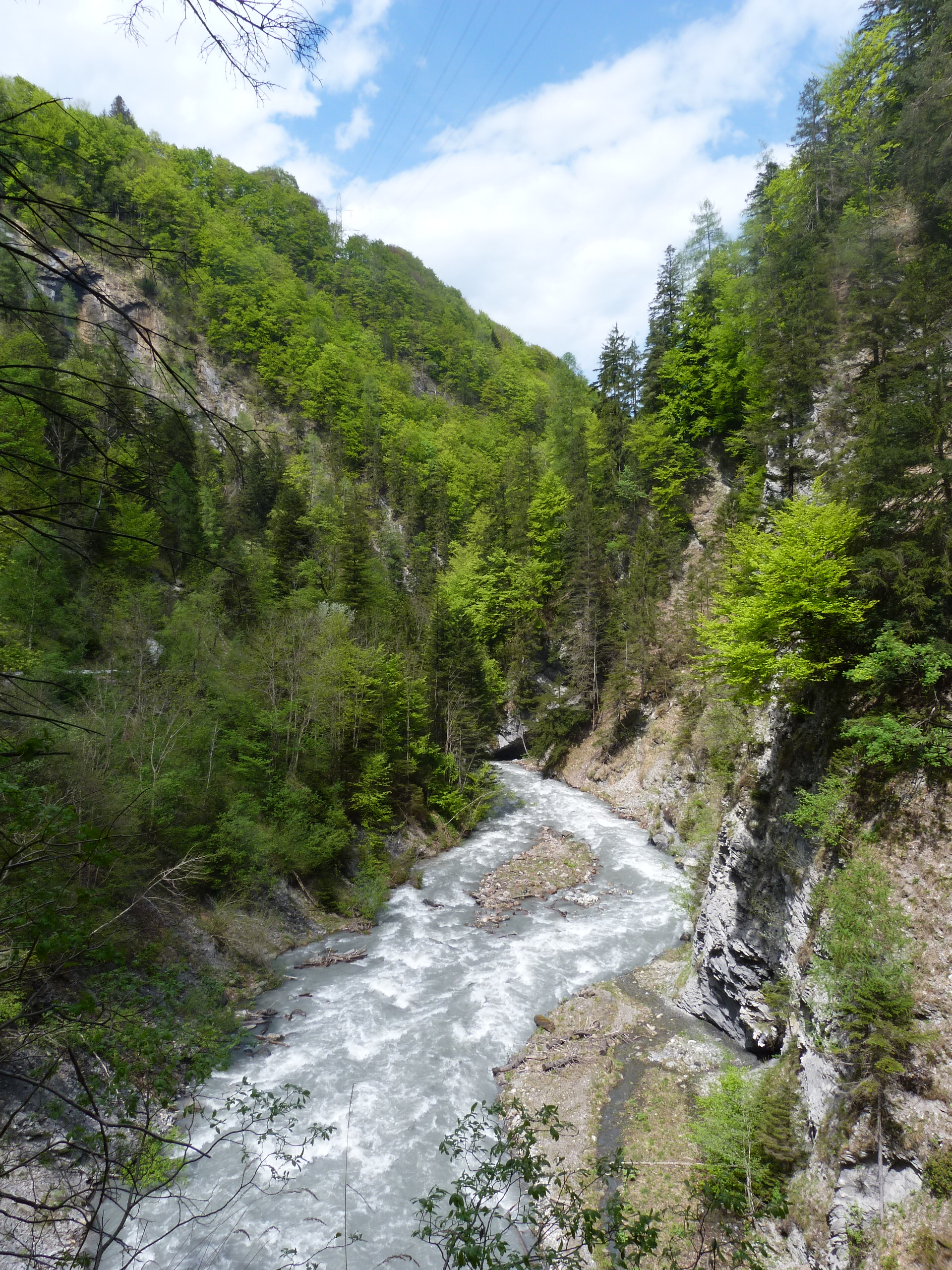 The river Tamina flowing through a gorge near Bad Ragaz, Switzerland, in May 2013